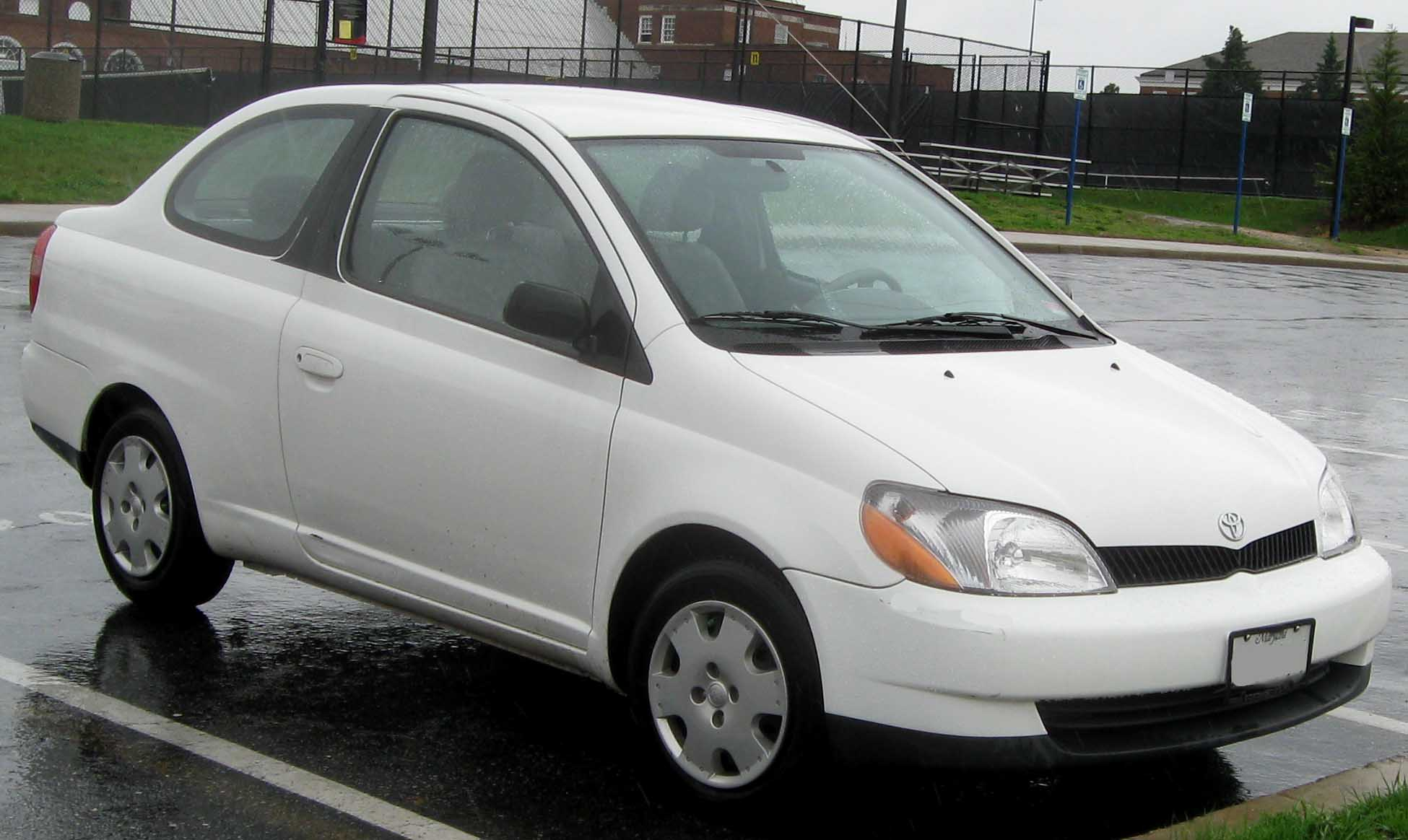 2000-2002 Toyota Echo photographed in College Park, Maryland, USA.